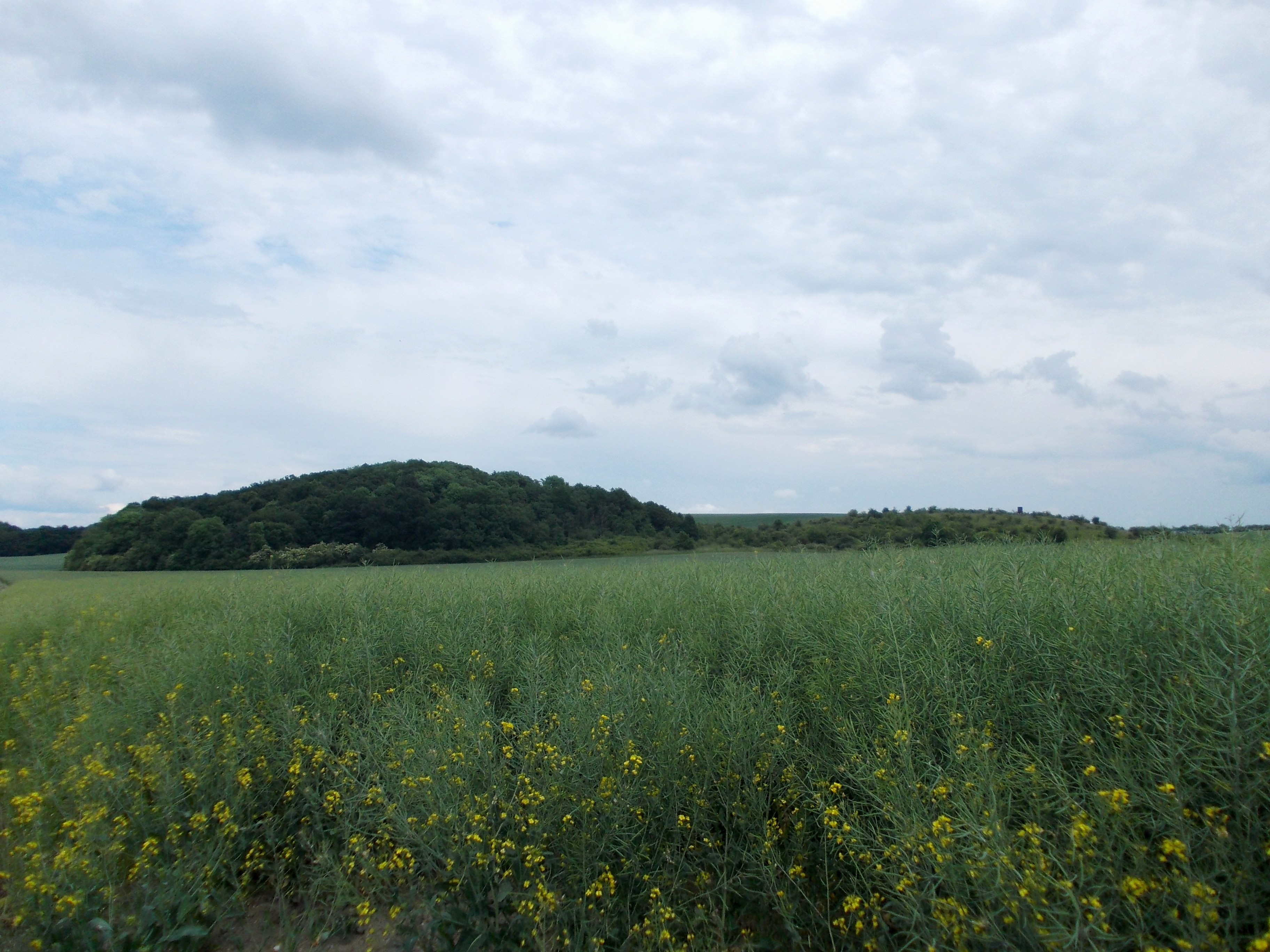 The Lindbusch (or Lintbusch) nature reserve near Bennstedt (Salzatal, district: Saalekreis, Saxony-Anhalt), view from the west